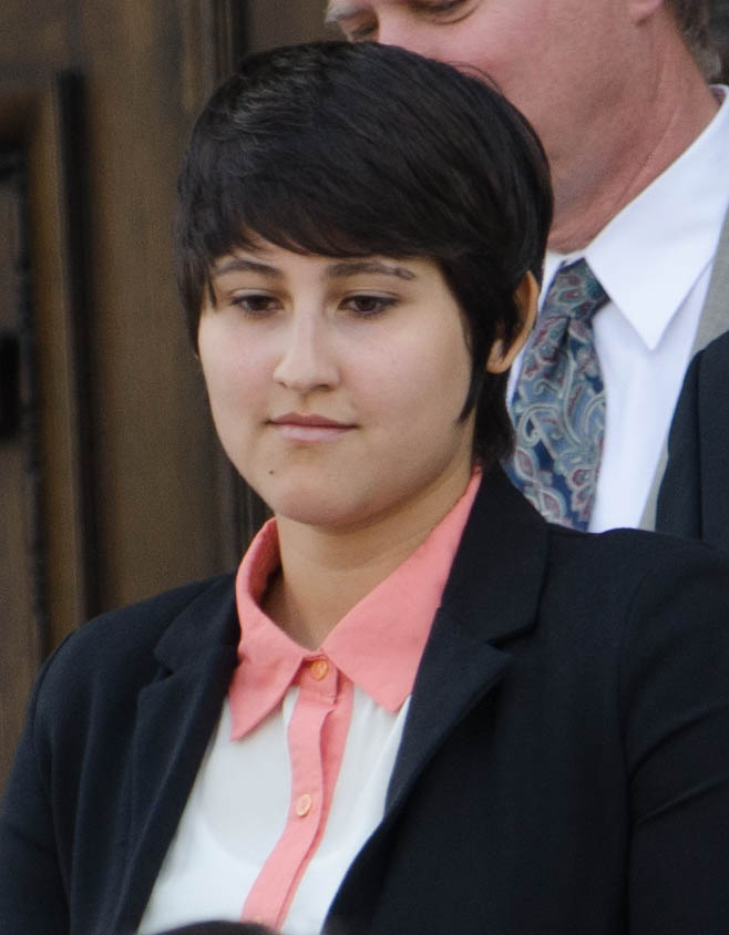 Estefania Cortes-Vargas at the 2015 Alberta Premier/Cabinet swearing-in ceremony, by Connor Mah.